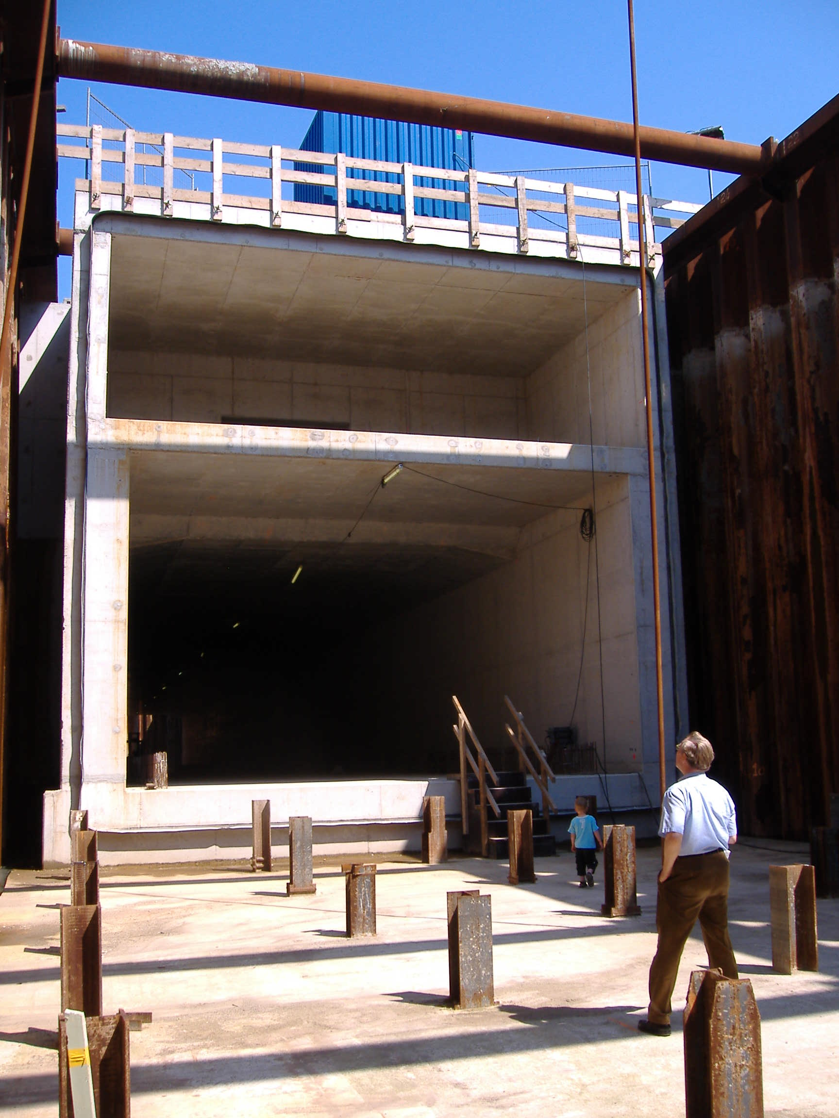 Section of tunnel just north of Europaplein.